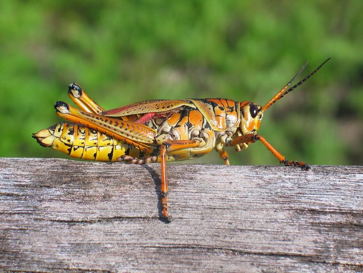 Eastern Lubber Grasshopper - Romalea microptera (Beauvois) also called Romalea guttata (Houttuyn)